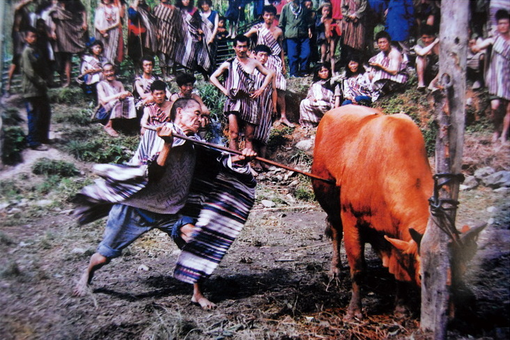 Dulong natioanlity